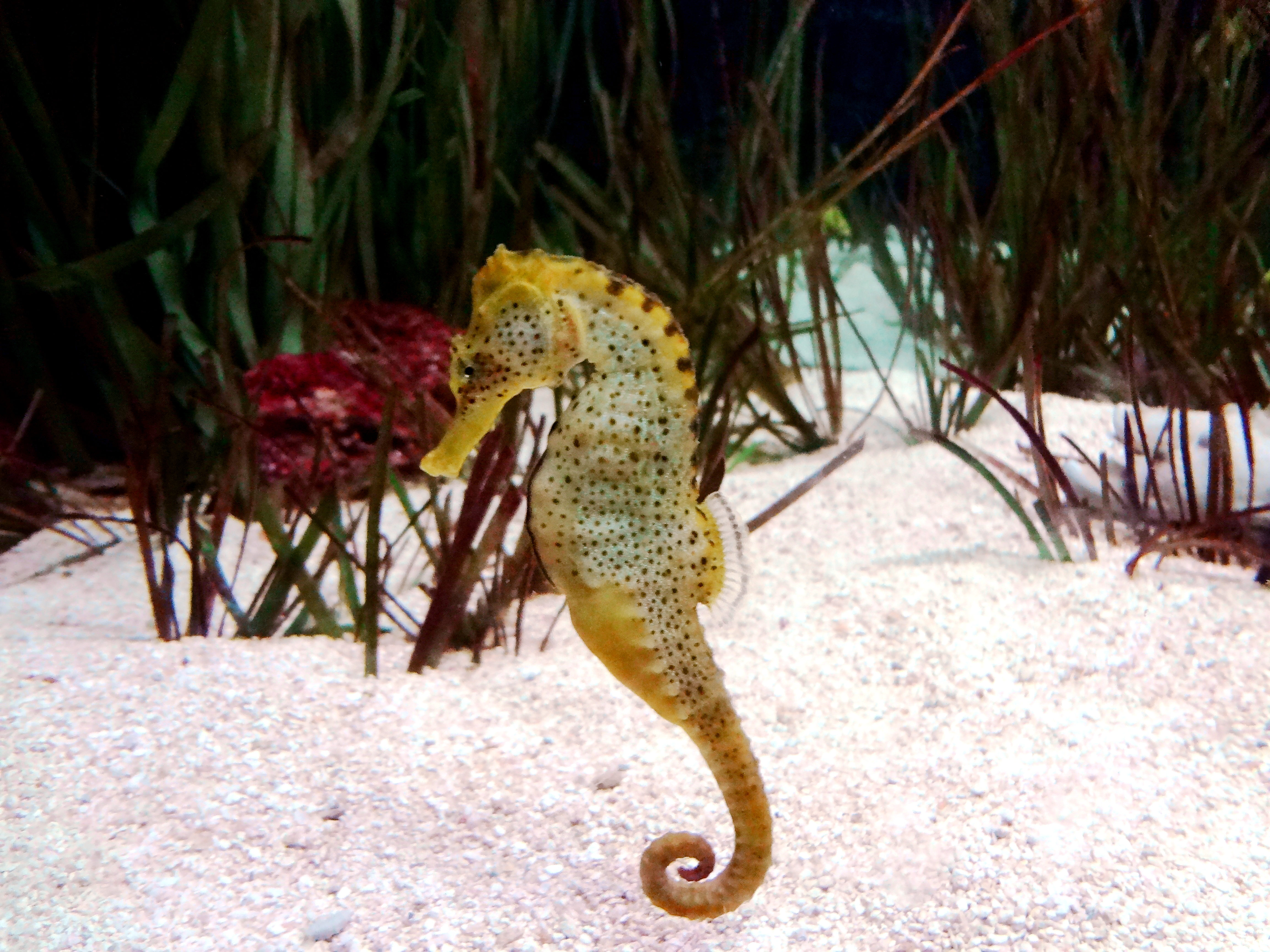 Hippocampus reidi male in Faunia, Madrid, Spain